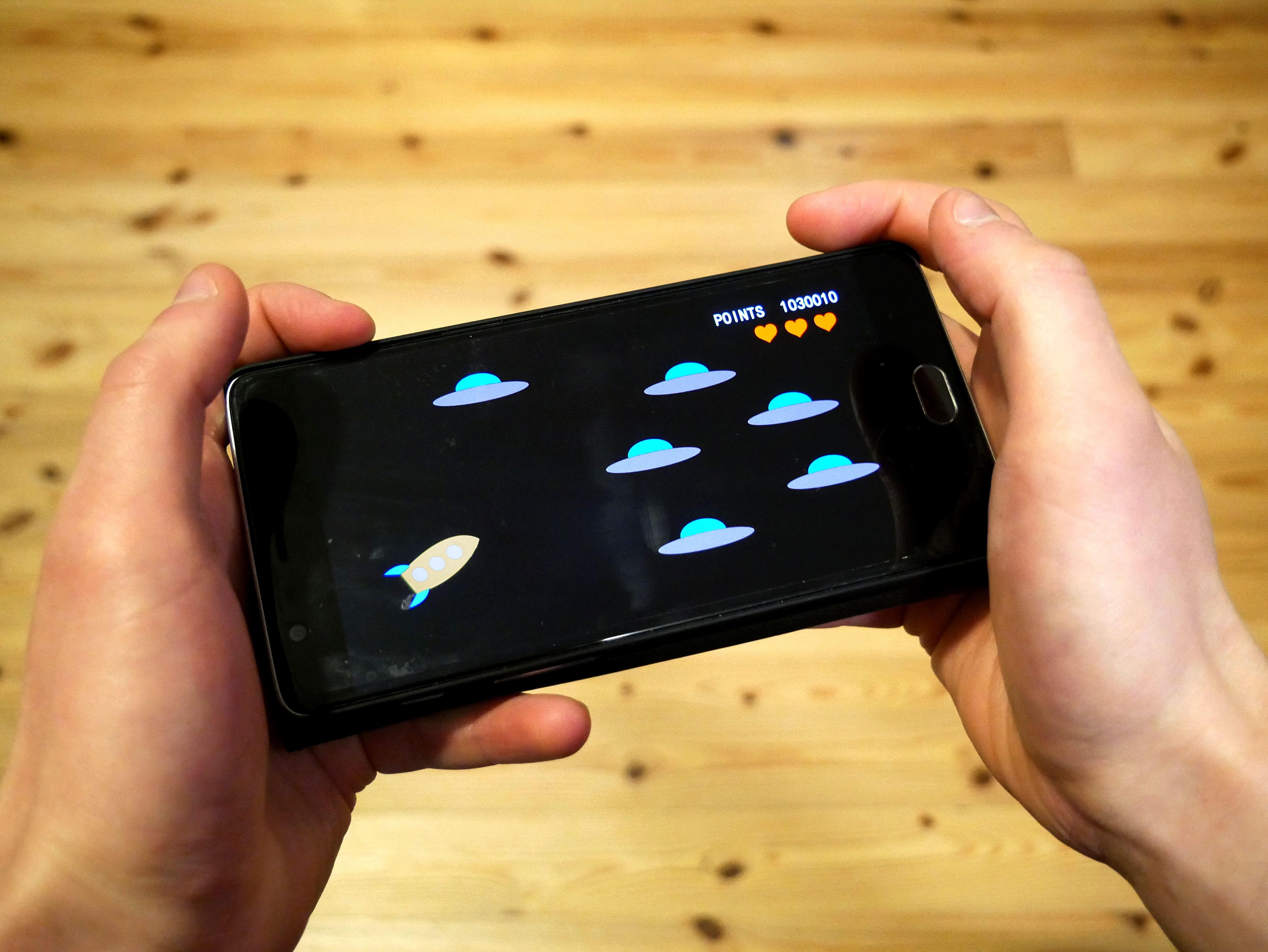 Playing video game with smartphone.